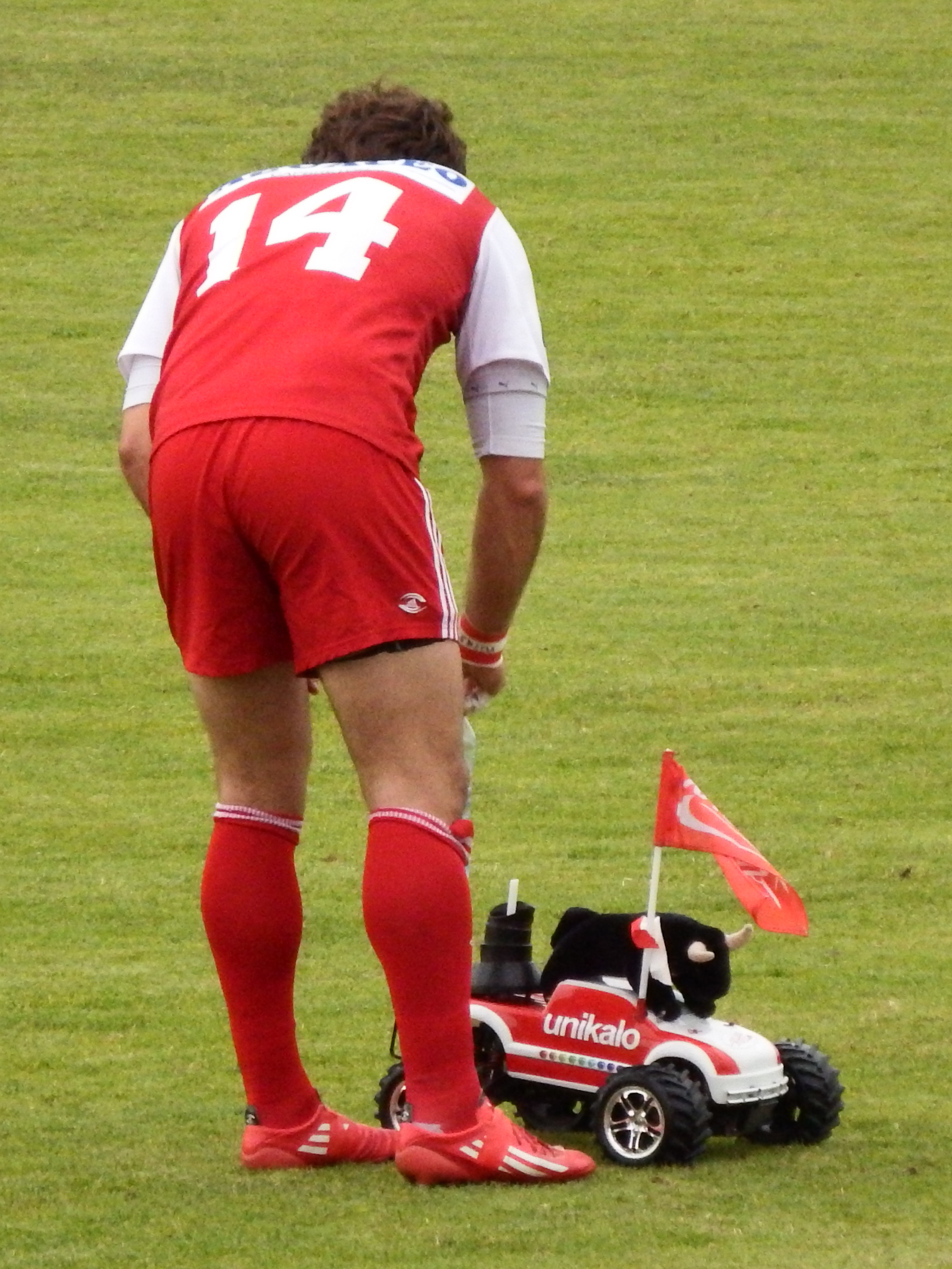 Pro D2 2013-2014 — 12 April 2014, Stade Maurice-Boyau. Match between: US Dax — Lyon OU